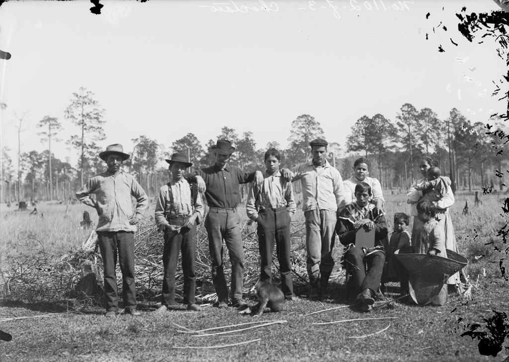 Nine Choctaws and two white men in Mississippi or Lousianna, USA.